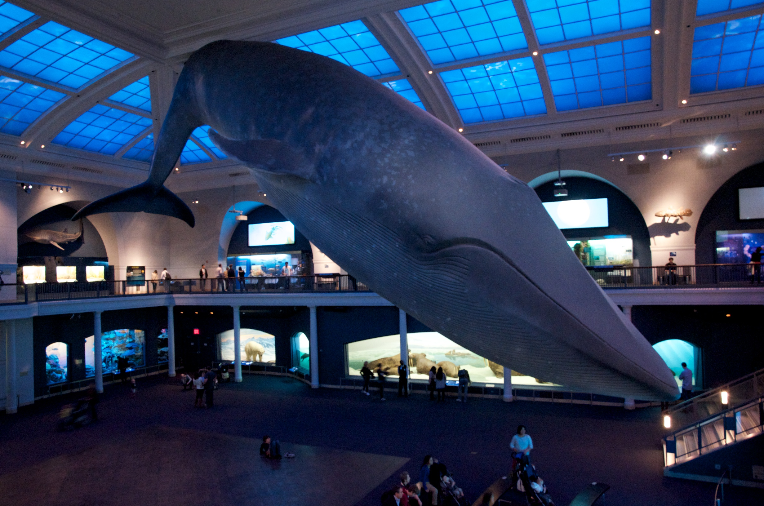 Life-size model of a Blue whale, Balaenoptera musculus